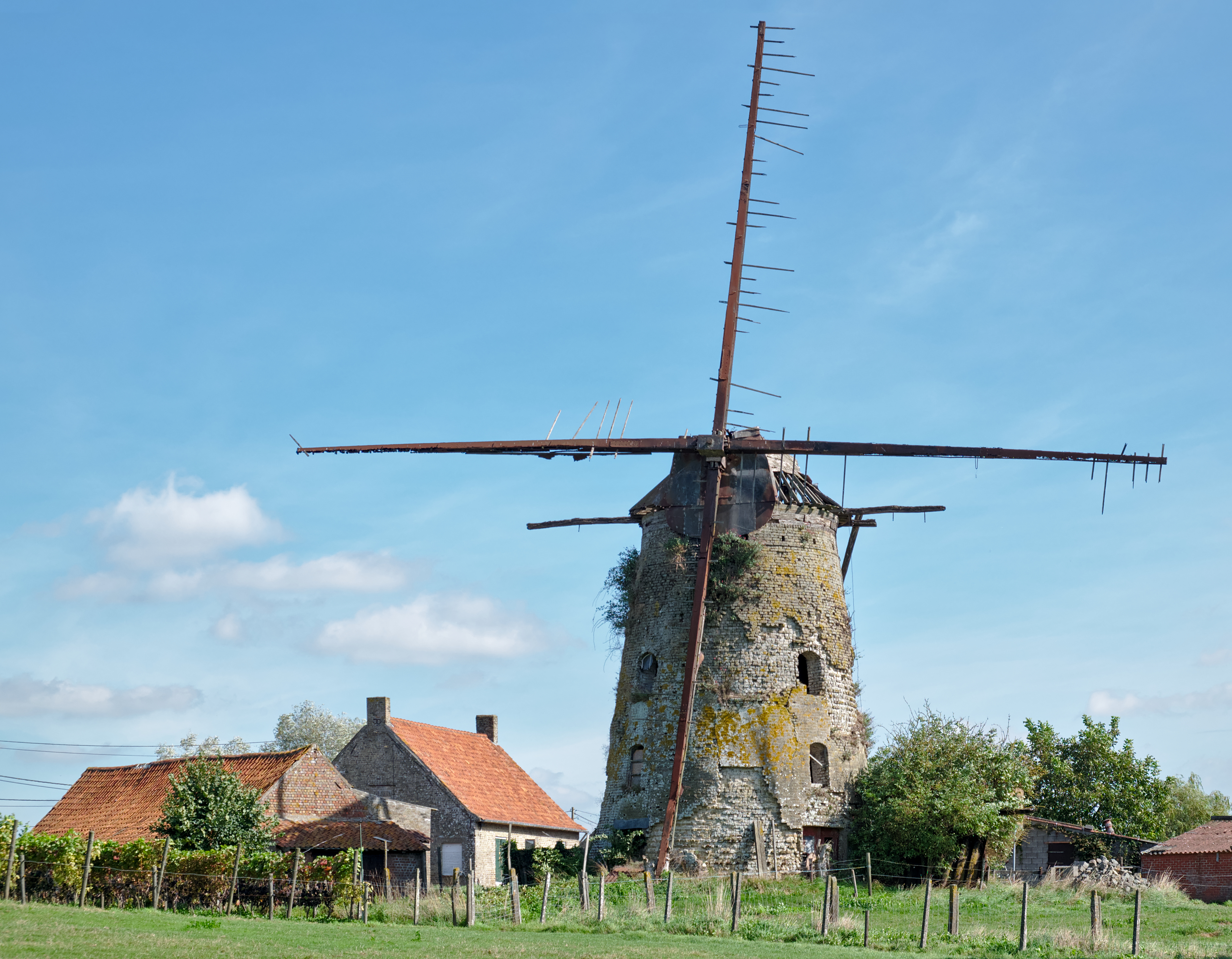 Margrietmolen windmill in Lo-Reninge, Belgium This photo of immovable heritage has been taken in the Flemish Region